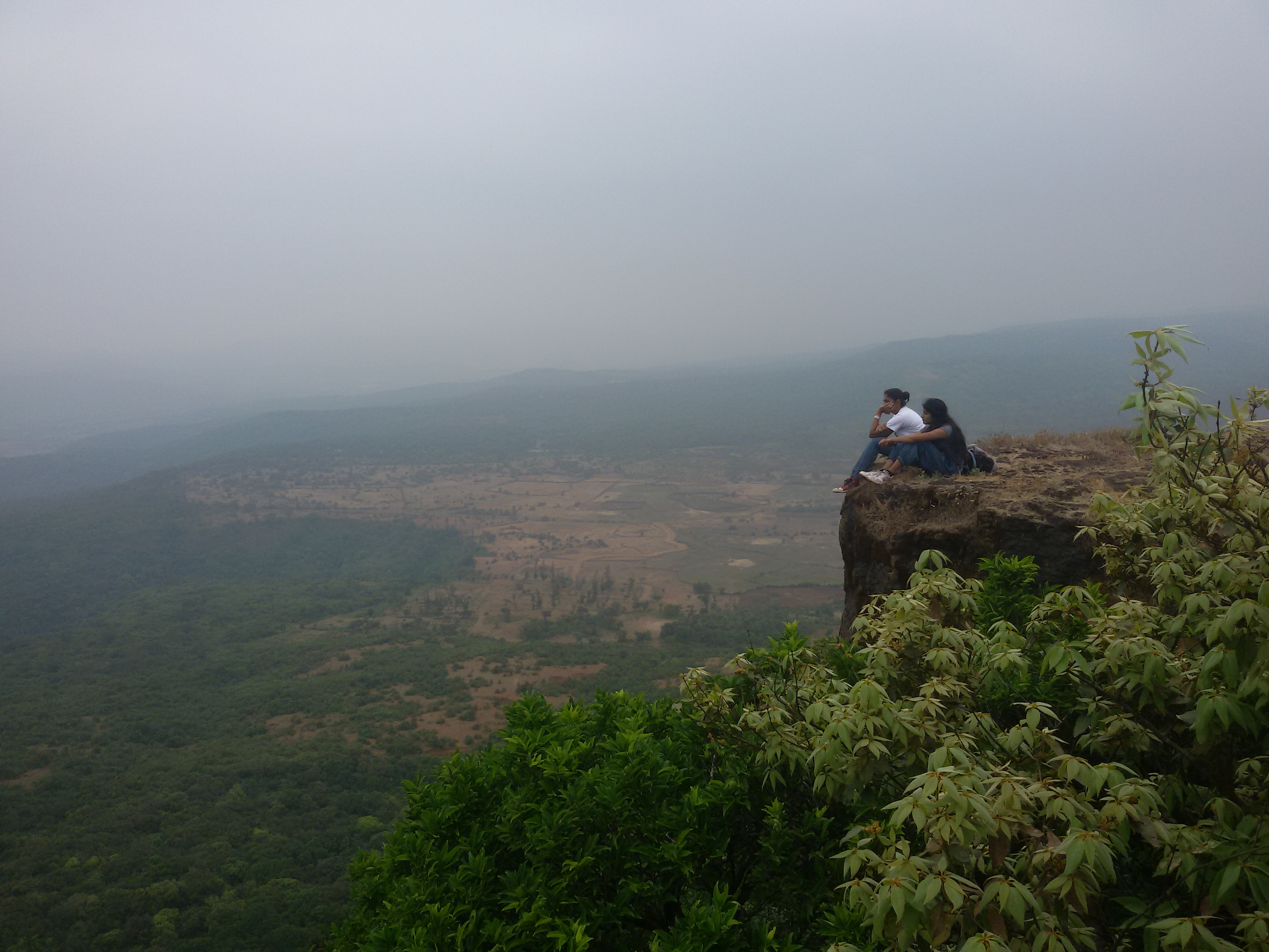 Morjai Cliff